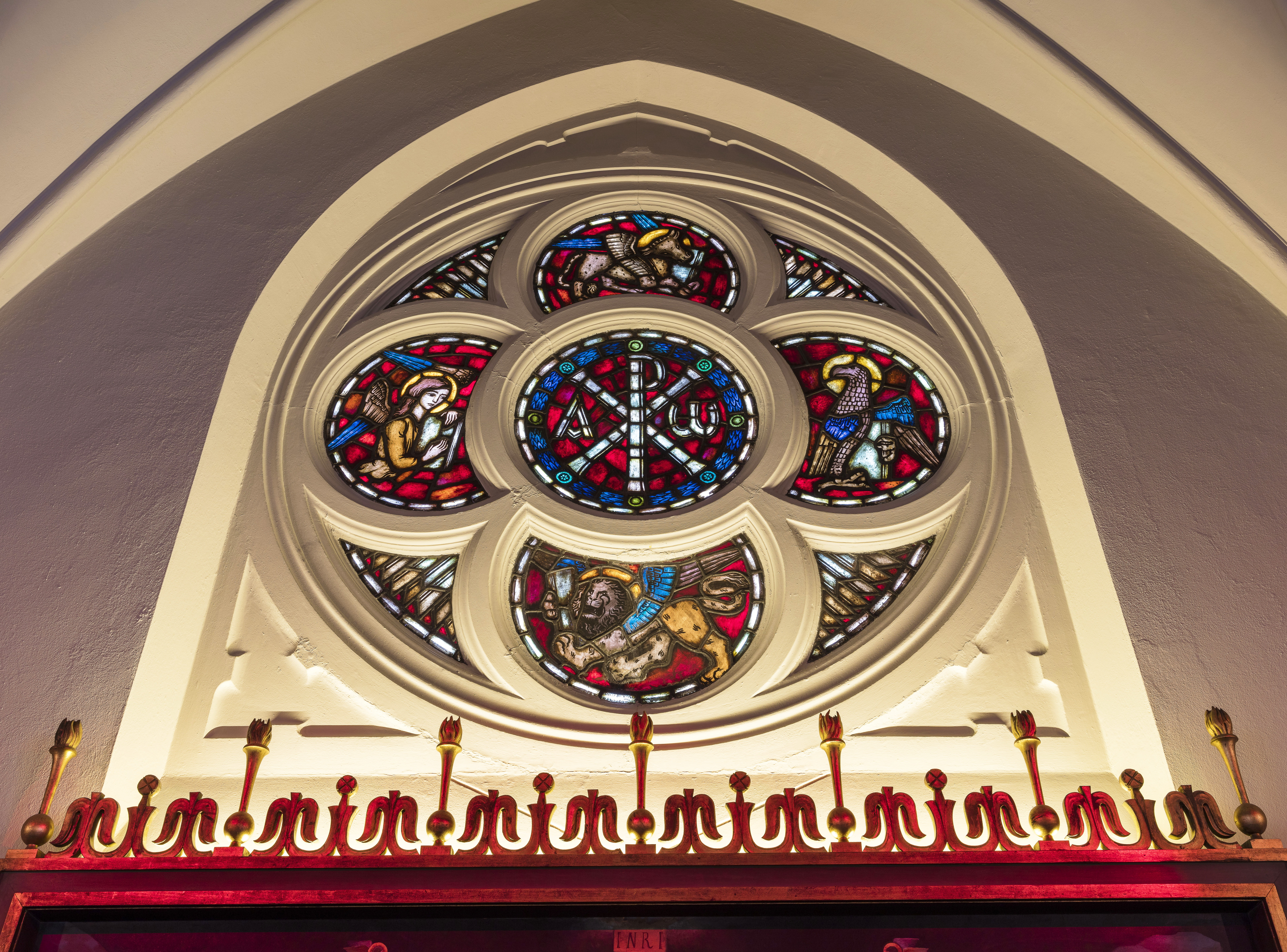 FOTOGRAFISandsborgskapellet. Rosettfönstret ovan altaret i koret. Konstnär Oscar Brandtberg. -FOTOGRAF: Ek, Mattias.BILDNUMMER:Stadsmuseet i Stockholm